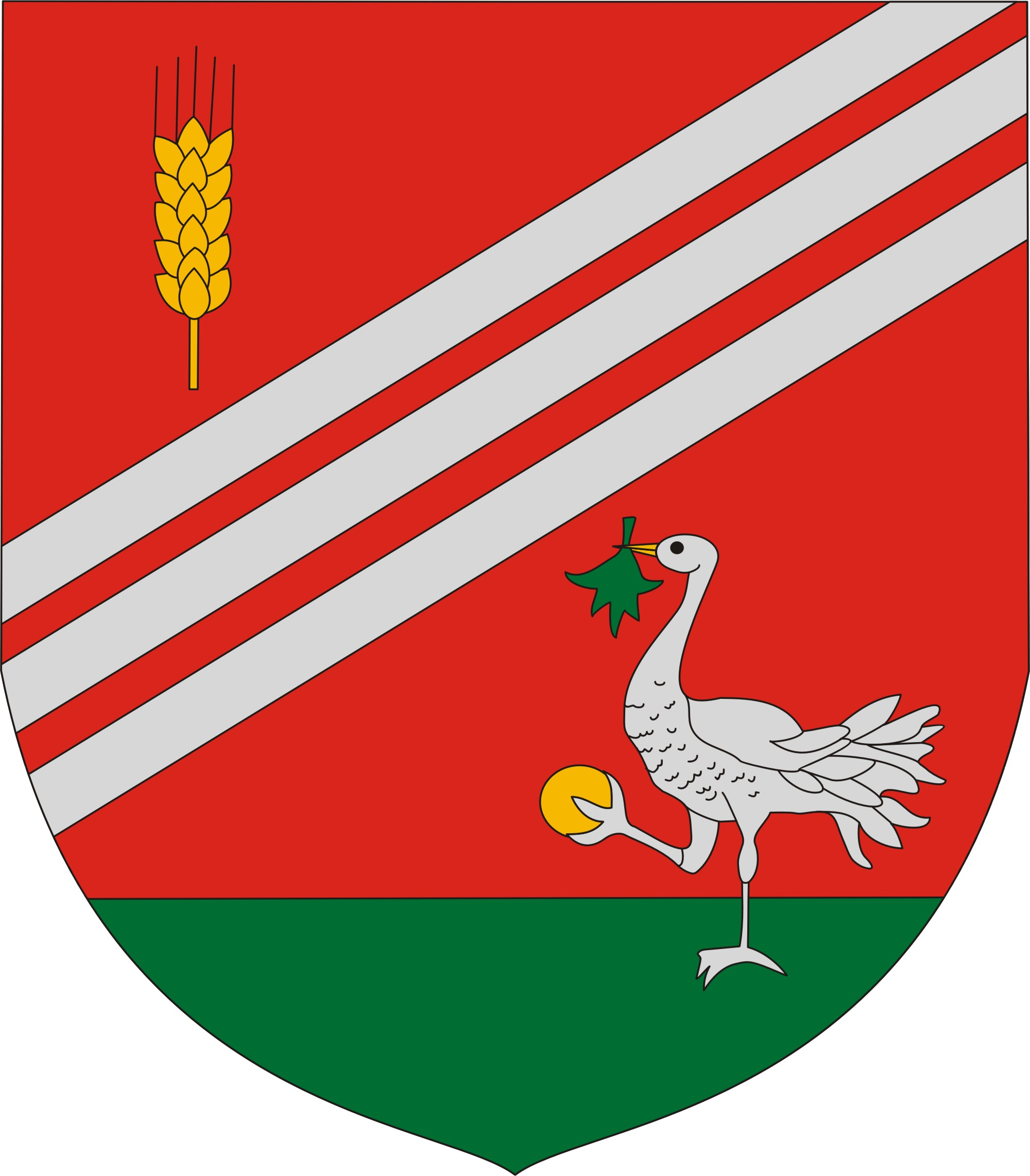 Coat of arms of Mezőfalva, Hungary